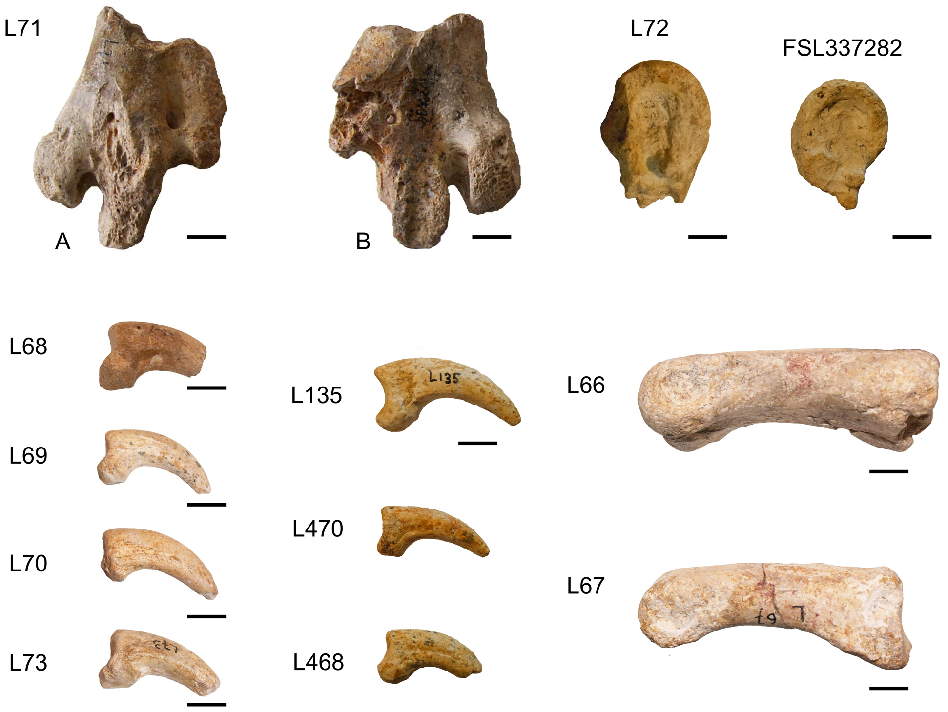 Eleutherornis cotei material from Lissieu. L71: distal end of left tarsometatarsus (lectotype), A) cranial view, B) caudal view; L72, FSL337282: left median (III) trochleae in lateral view; L68, L69, L70, L73, L135, L470, L468: ungual phalanges; L66, L67: phalanges. L66, L67, L68, L69, L70, L71, L72, and L73: type series described by Gaillard (1937) kept in the Musée des Confluences, Lyon. FSL337282: supplementary material kept in the University Lyon 1, Lyon L135, L470, and L468: supplementary material kept in the Musée des Confluences, Lyon. All scale bars are 1 cm.